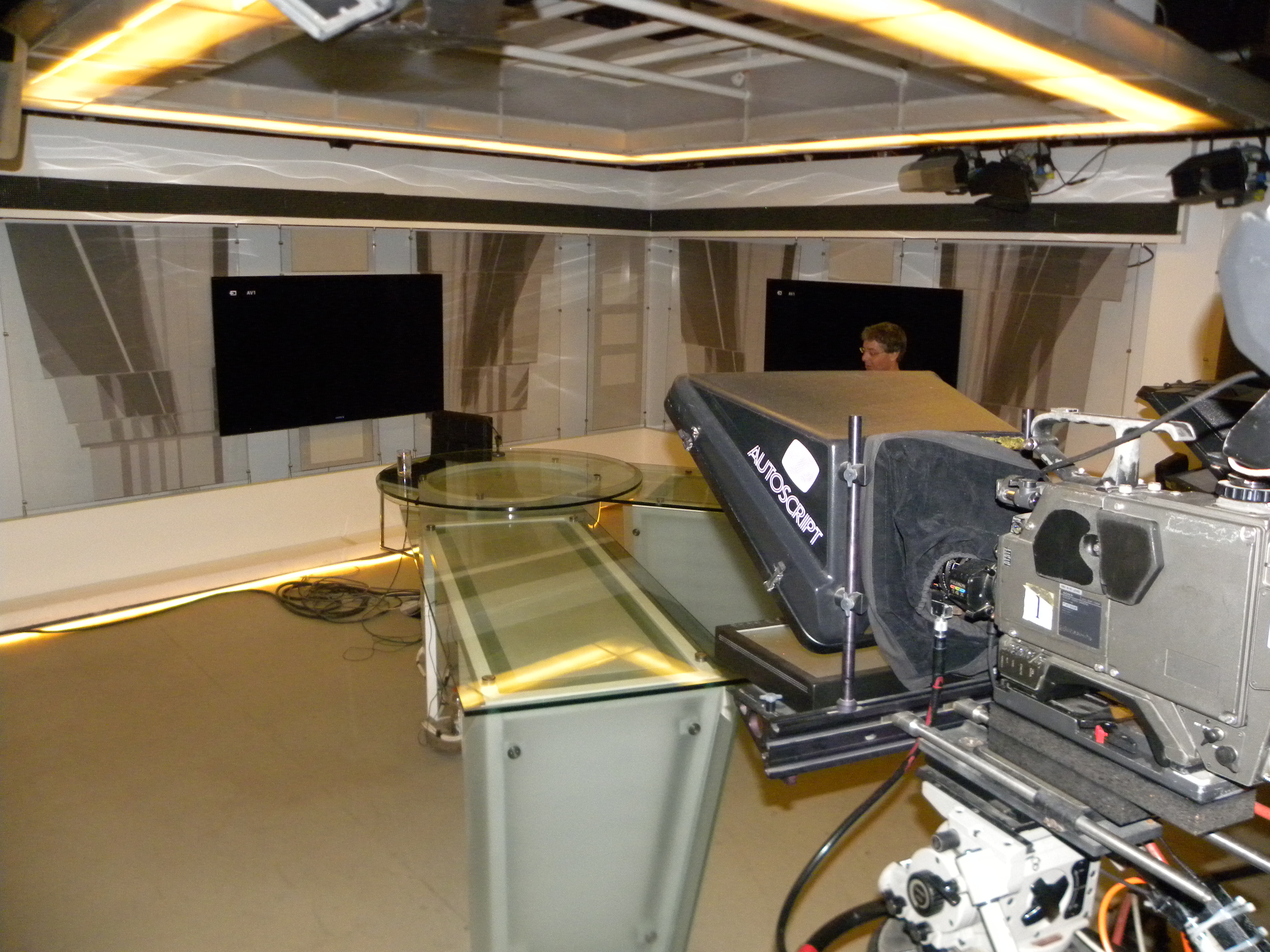 Israel Broadcating Authority, Channel 33 studio 1, at the Israeli Television Building, Romena, Jerusalem